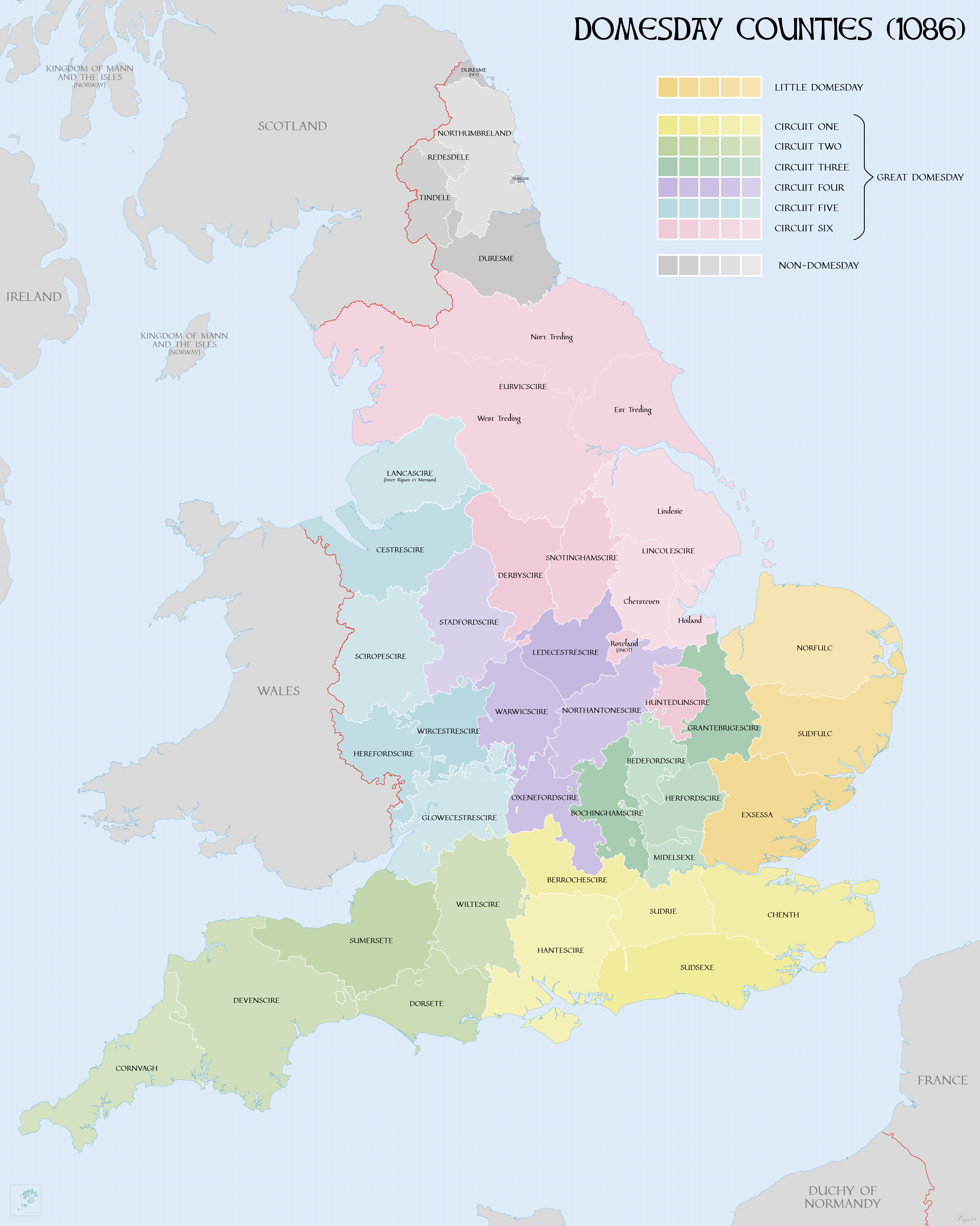 Map of the English counties surveyed in Domesday Book. Showing Little and Great Domesday and circuits